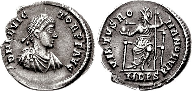 Flavius Victor. AD 387-388. AR Siliqua (1.42 g, 6h). Mediolanum (Milan) mint. D.N. FL VICTOR P F AVG Pearl-diademed, draped, and cuirassed bust right VIRTVS ROMANORVM Roma seated facing, head left, holding globe and spear; MDPS in exergua. RIC IX 19b; RSC 6Ac. VF, lightly toned, short hairline flan crack. Rare. From the John A. Seeger Collection.